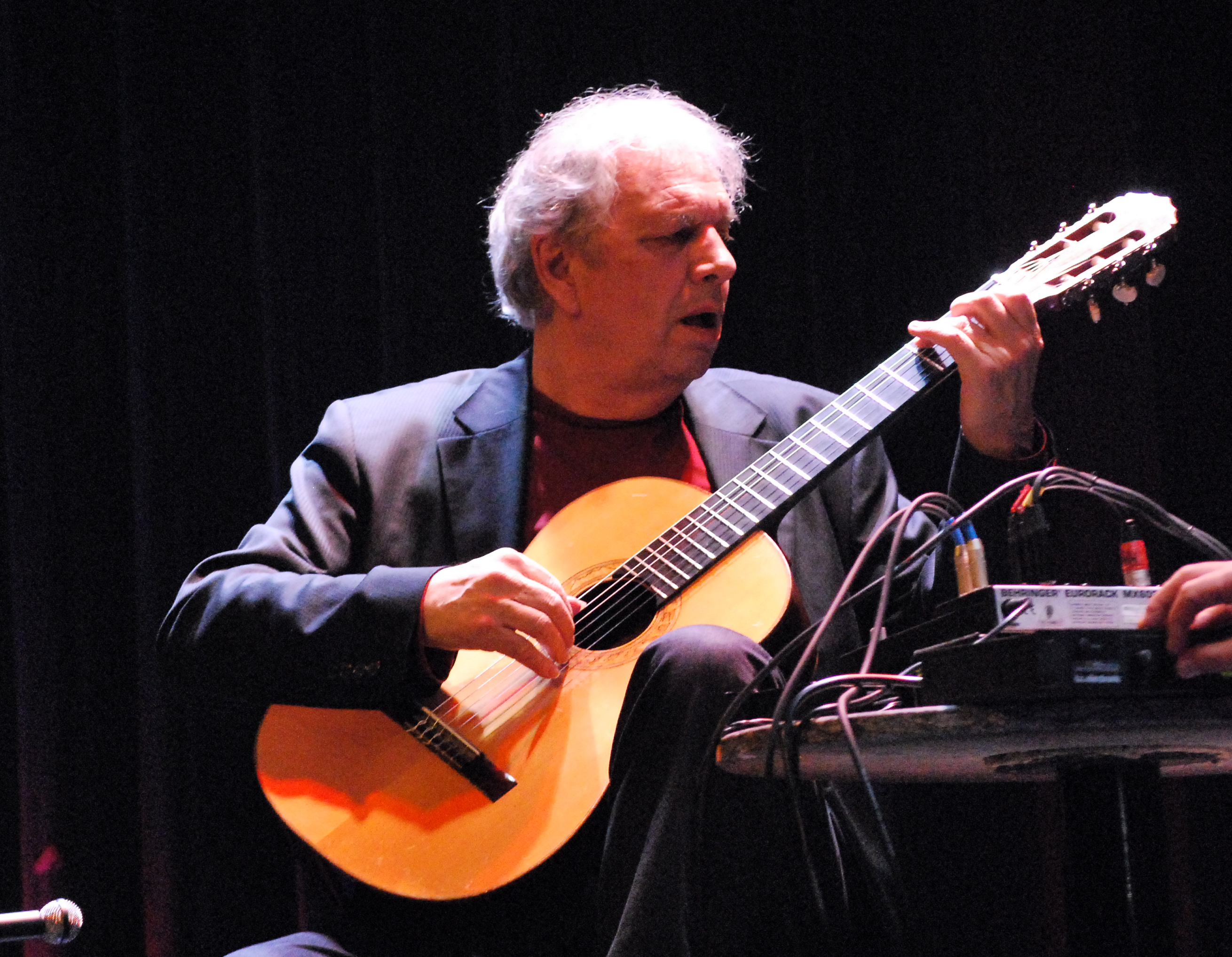 Ralph Towner at a concert with Paolo Fresu, Treibhaus Innsbruck 1010